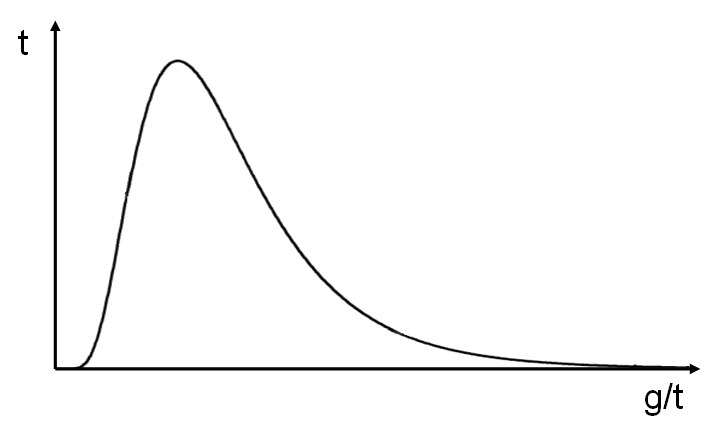 Lognormal distribution of an ore, y axis has the overall tonnage, x axis has the grade of ore.